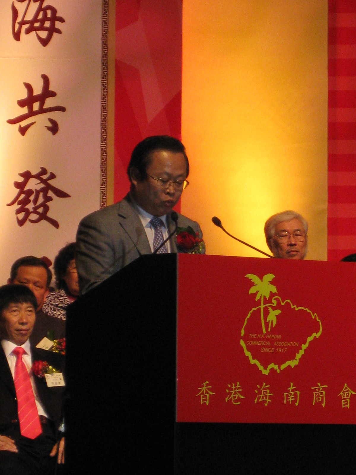 Lin Fanglue